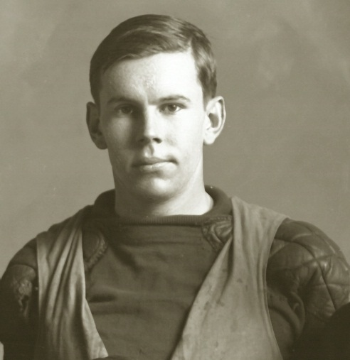 James K. Watkins cropped from 1907 University of Michigan football team